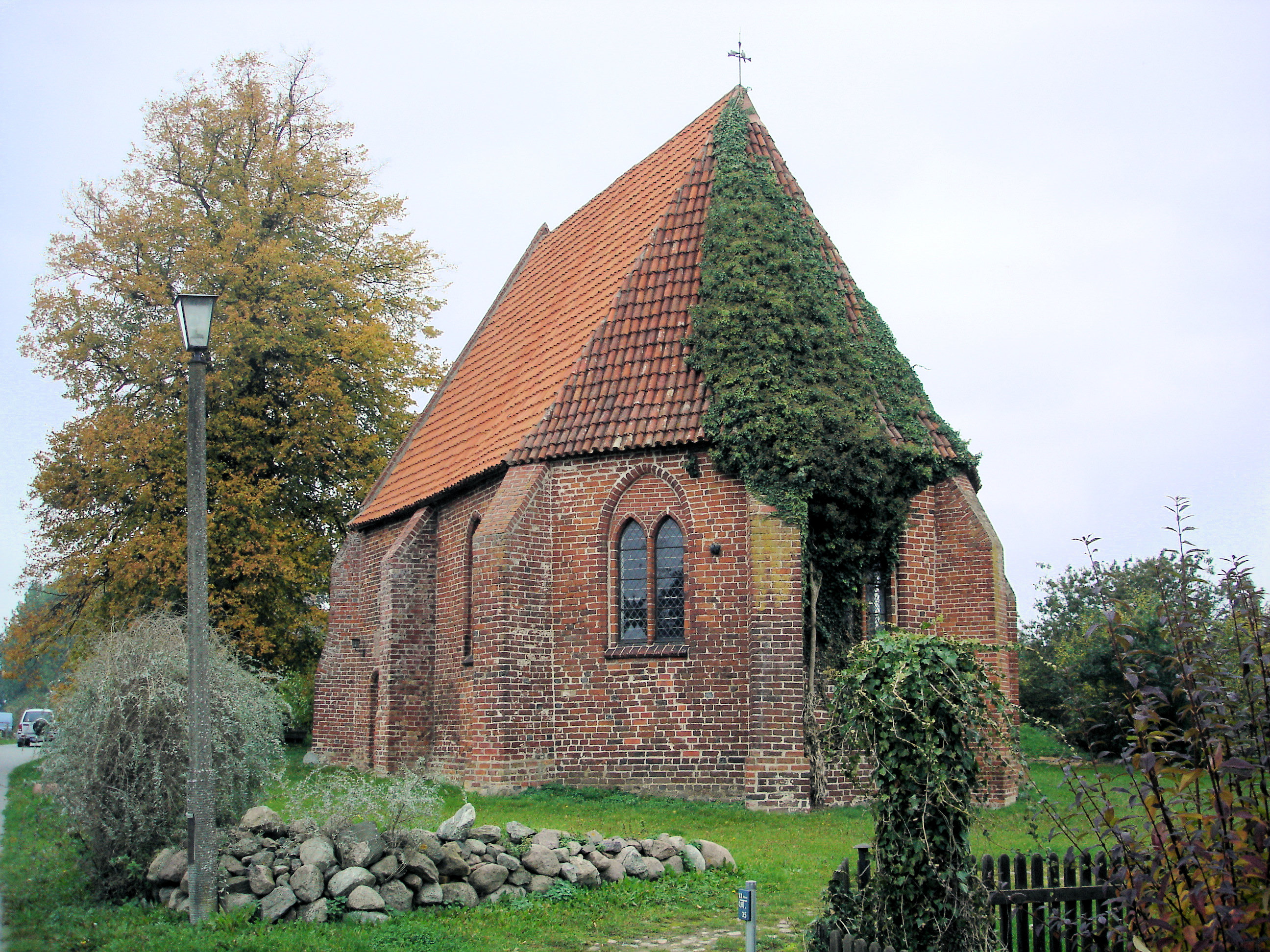 Chapel in Weitendorf, Mecklenburg, Germany